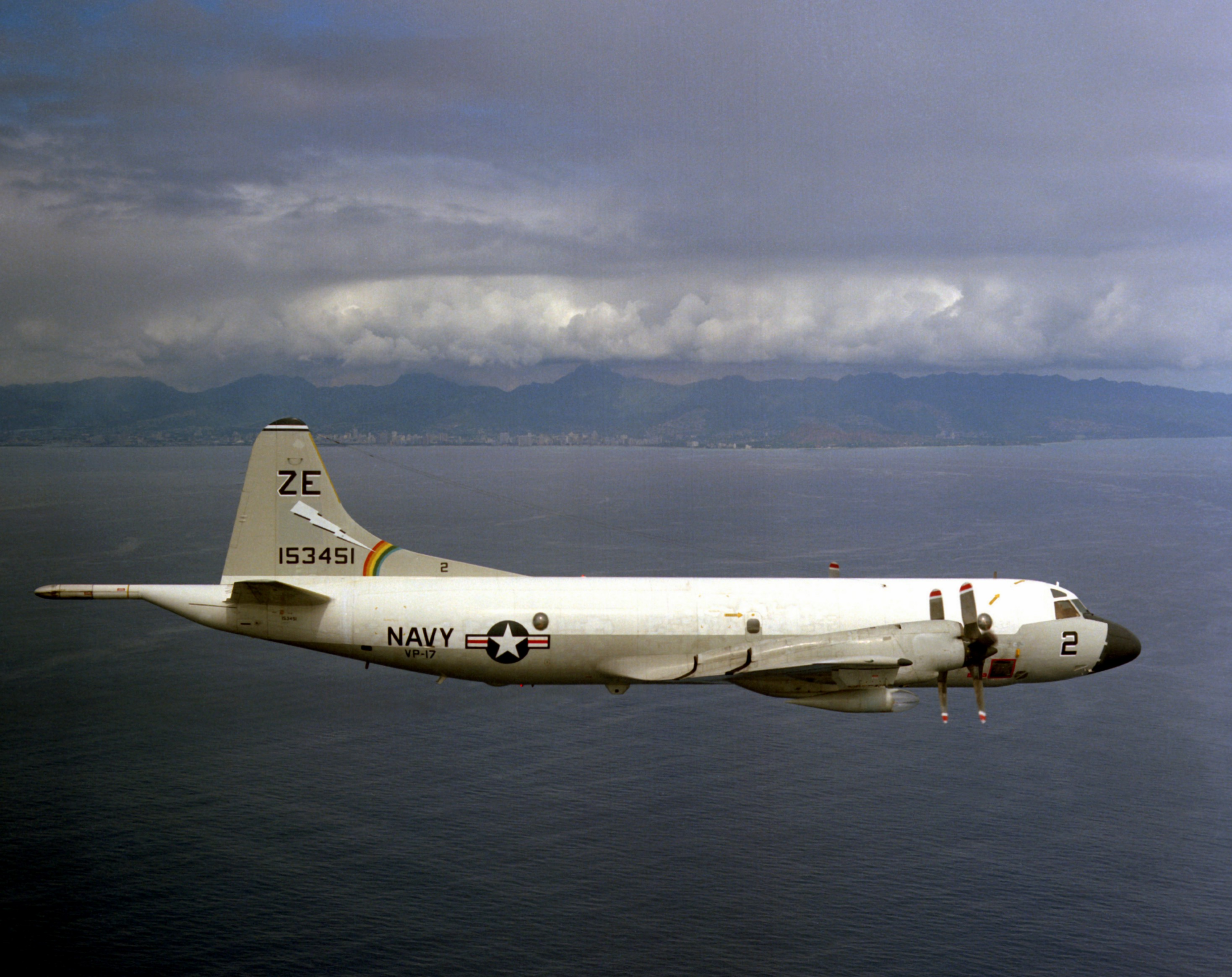 A U.S. Navy Lockheed P-3B-90-LO Orion (BuNo 153451, c/n 185-5247) from patrol squadron VP-17 White Lightnings in flight off Oahu, Hawaii (USA), on 29 January 1976. This aircraft was retired to the AMARC as 2P0115 on 21 December 1993 and scrapped on 8 January 2003. VP-17 was disestablished on 31 March 1995.